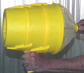 A picture of a Airzooka.